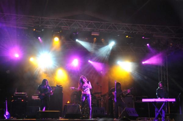 Symphonic metal band Níobeth playing in Viña Rock Festival 2009 in Albacete (Spain).